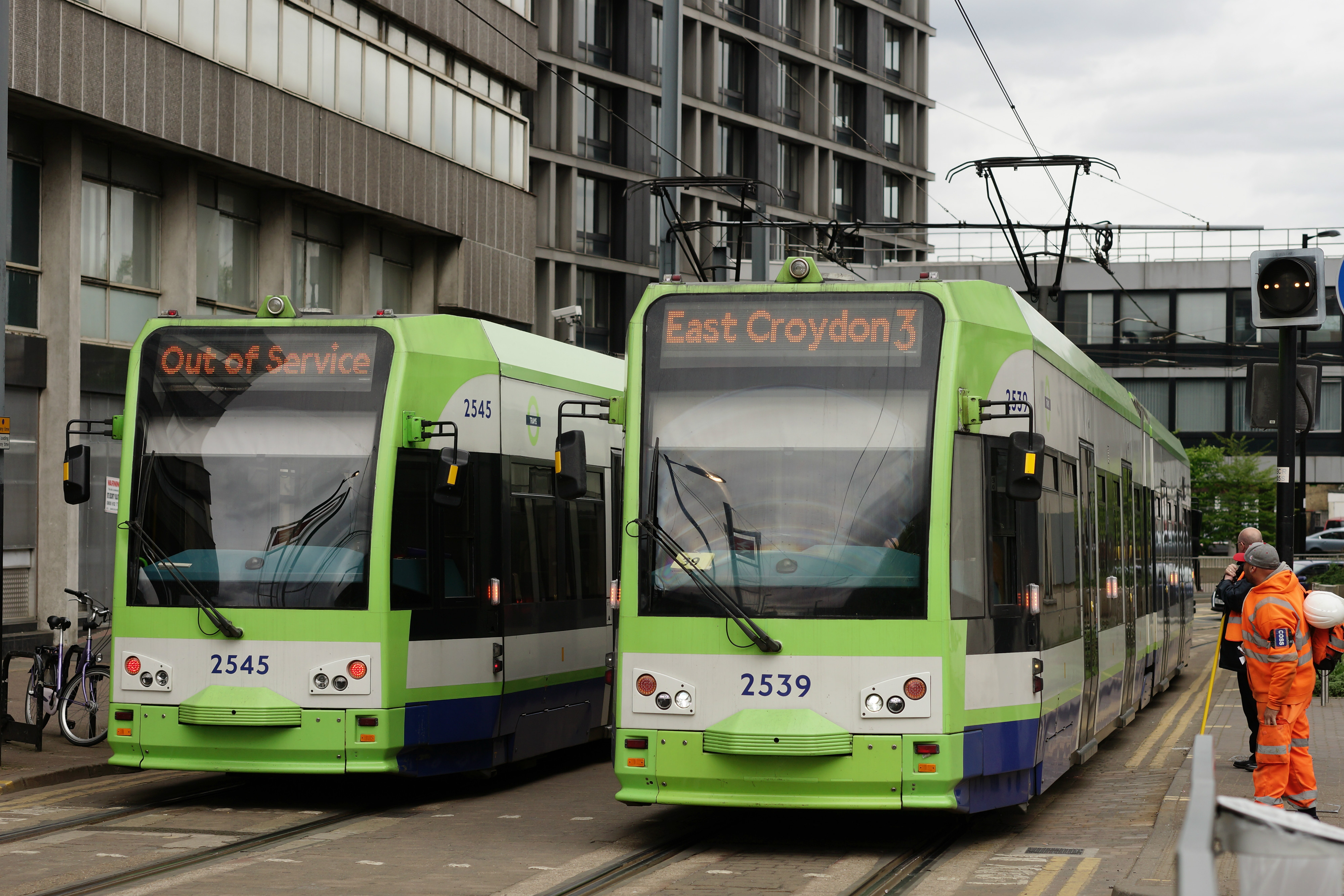 George Street, Croydon.